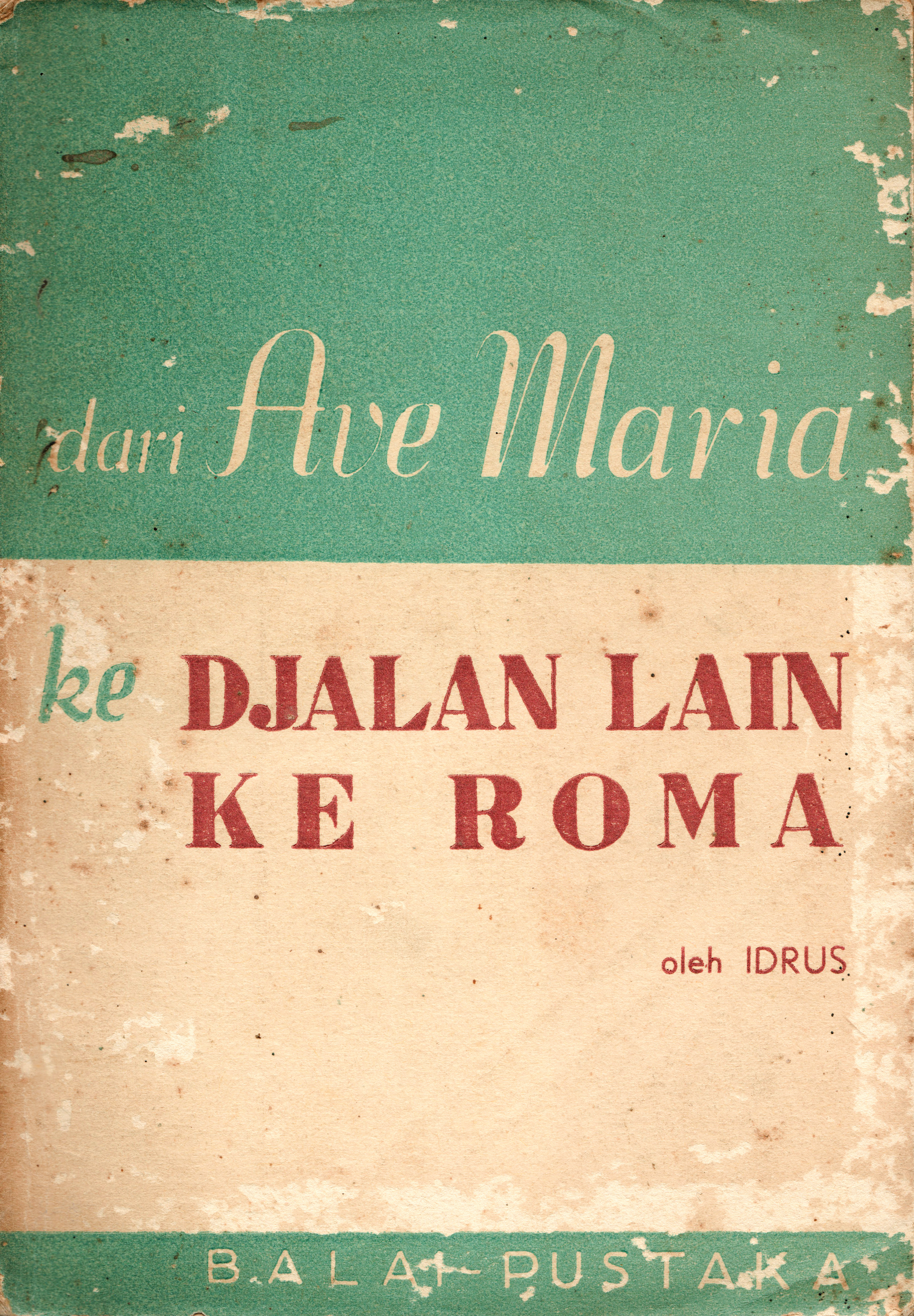 Front cover of the first edition of Idrus' short story collection Dari Ave Maria ke Djalan Lain ke Roma, 1948.